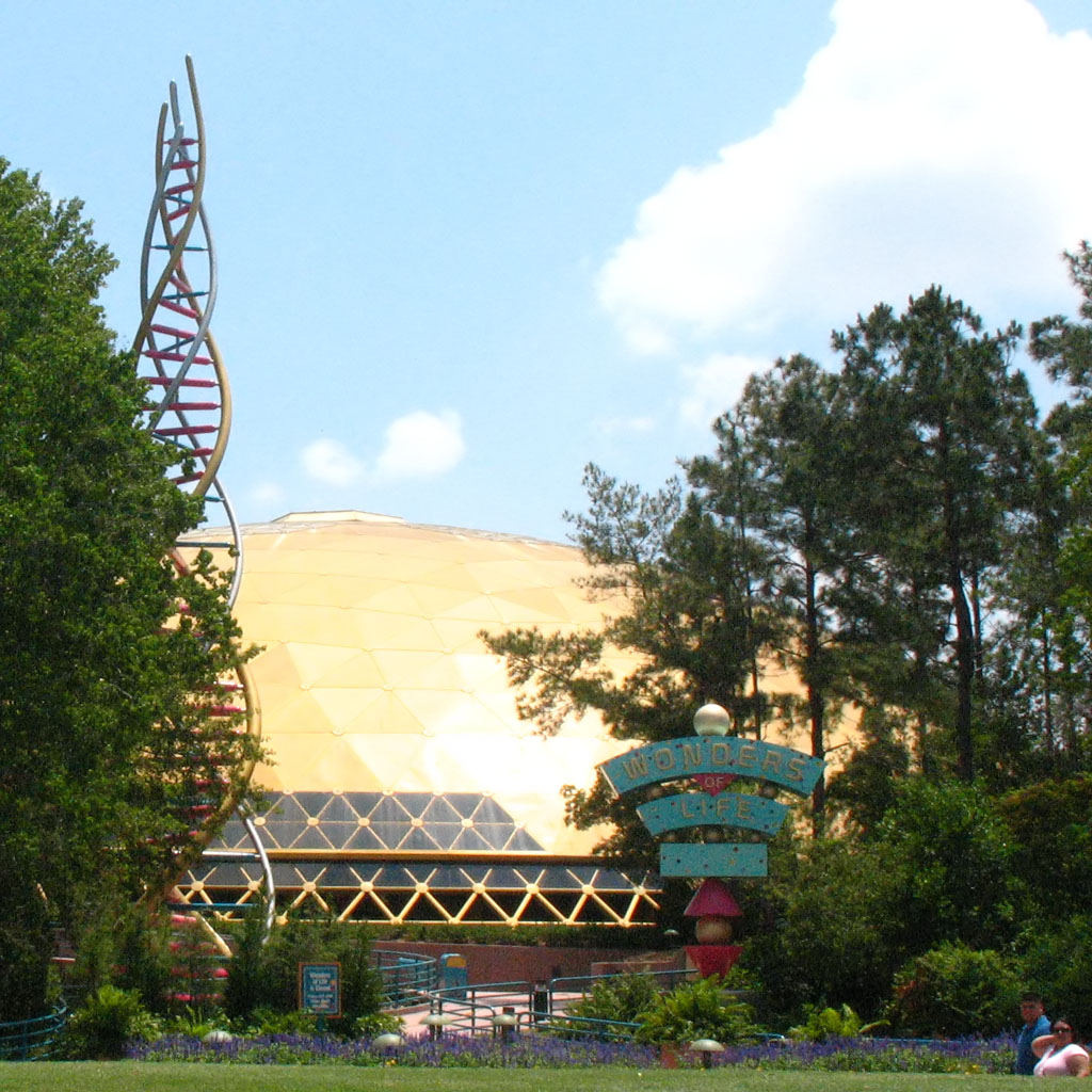 Wonders of Life at Epcot. Taken June 2007